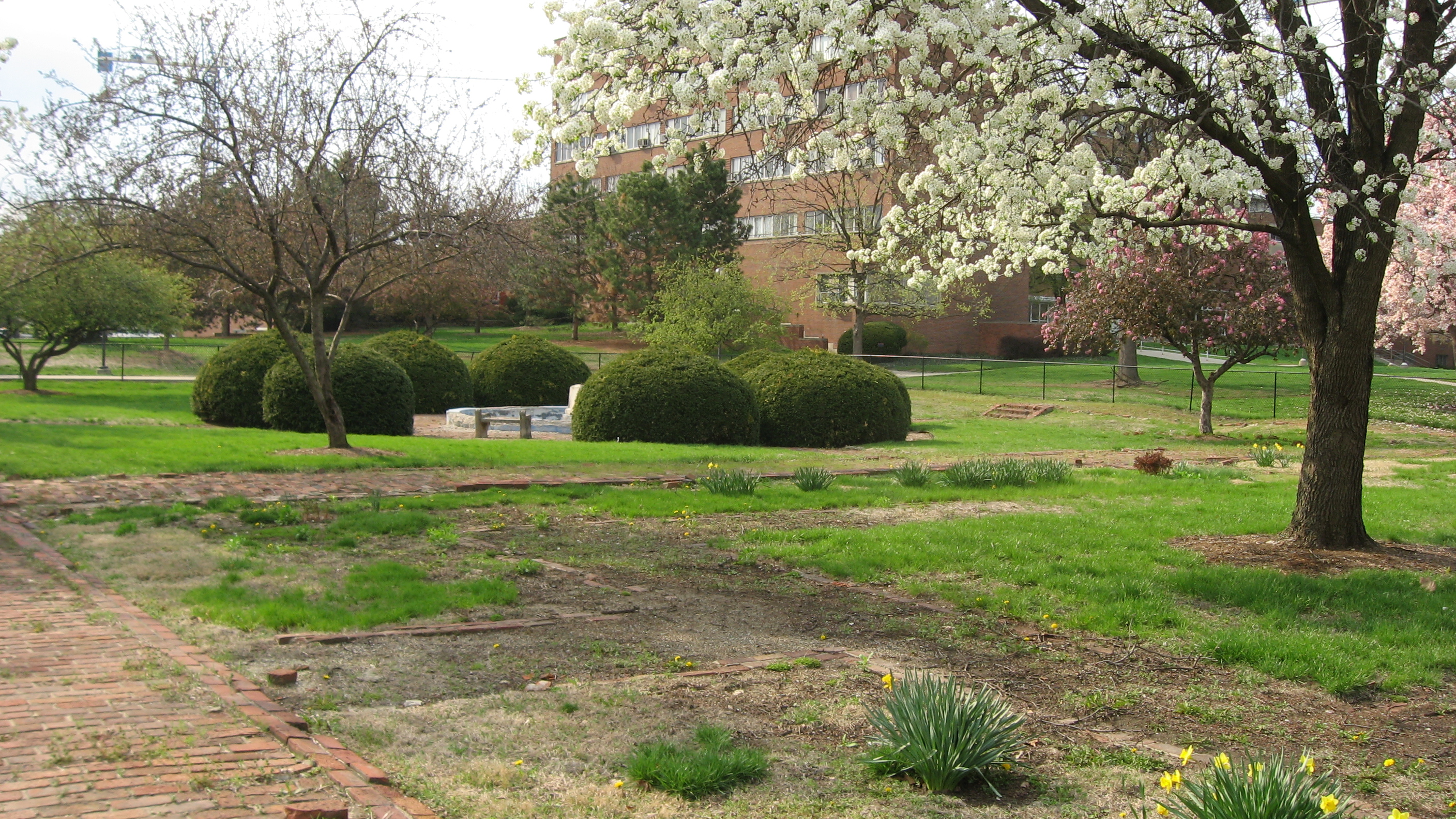 Comprehensive view of the Nurses' Sunken Garden, located near the Indiana University Hospital and the James Whitcomb Riley Hospital for Children on the IUPUI campus in Indianapolis, Indiana, United States. Completed in 1930, the garden and associated convalescent park are listed together on the National Register of Historic Places.